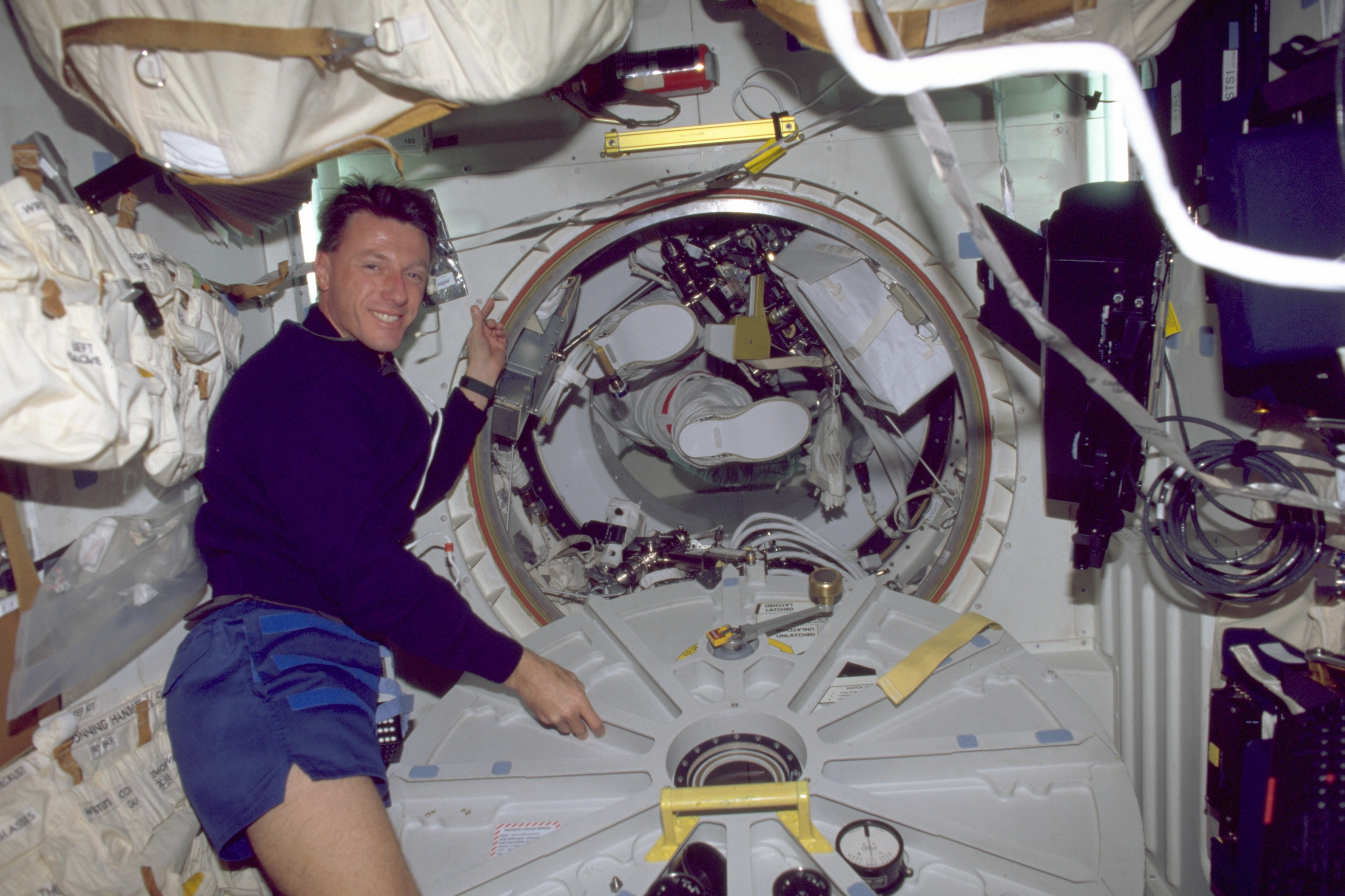 Astronaut C. Michael Foale closing the hatch to the airlock, with astronauts Steven L. Smith and John M. Grunsfeld inside, prior to one of the space walks.